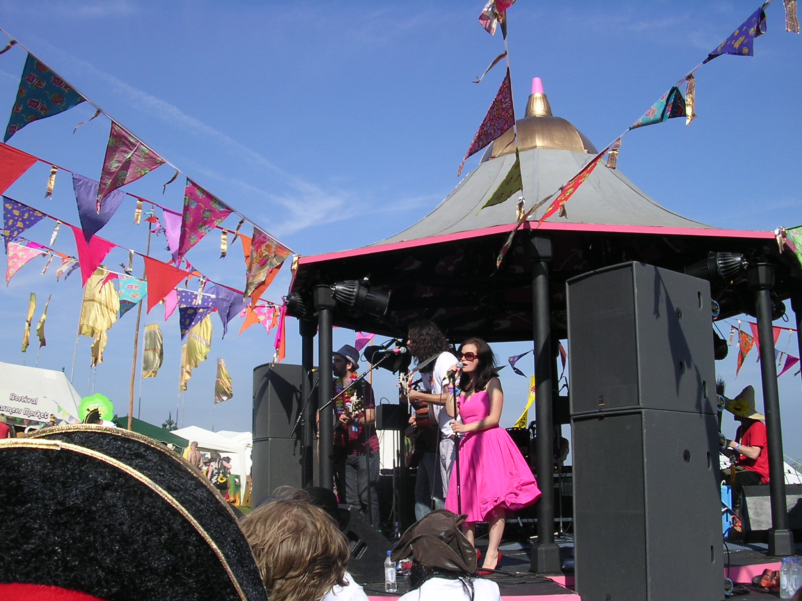 Tunng, seen performing in the bandstand at Bestival 2007, held on the Isle of Wight.